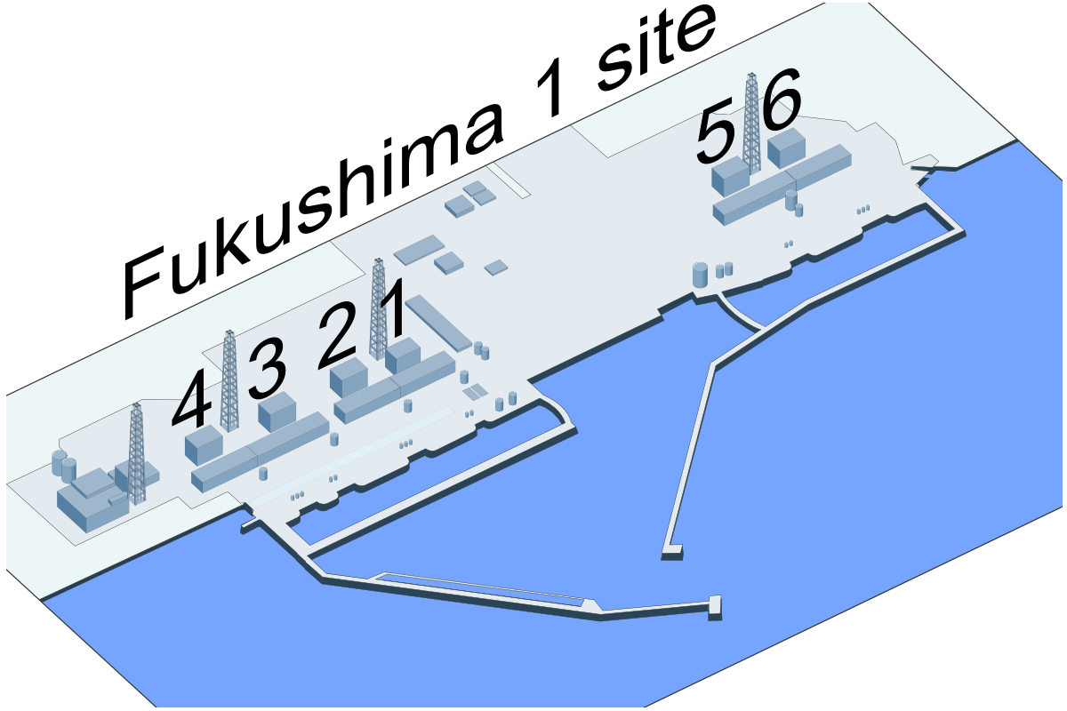 Fukushima I Nuclear Powerplant site close-up without text